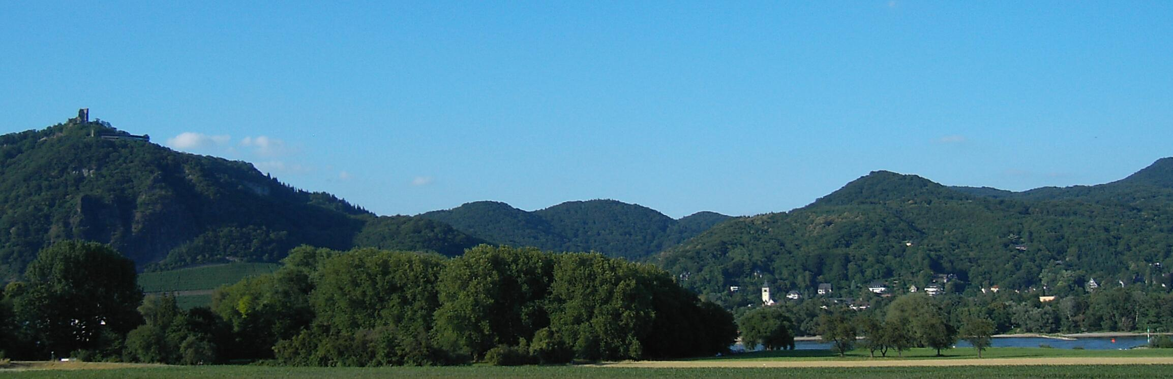 The Siebengebirge hills in Bad Honnef-Rhöndorf.